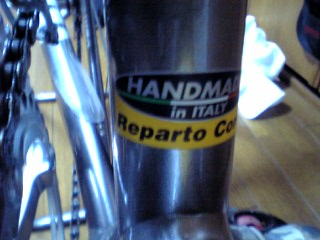 sticker of repartocorse